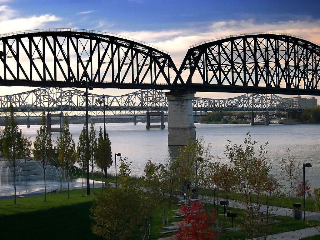 Louisville Bridges, Ohio River, Kentucky